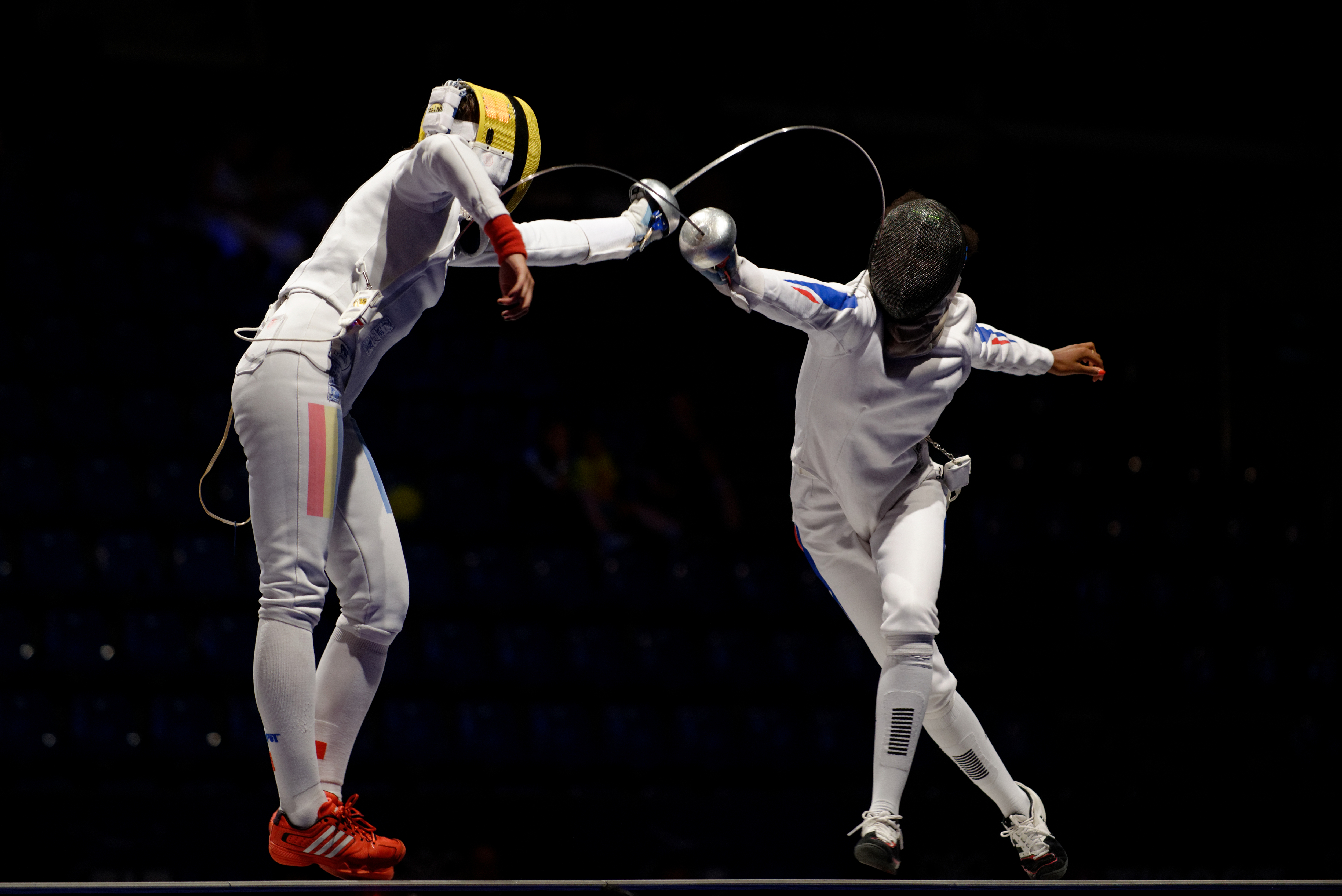 Romania's Ana Maria Brânză (L) fences against Lauren Rembi of France (R) in the match for the third place of the womens' team épée event of the 2013 World Fencing Championships at Syma Hall in Budapest, 11 August 2013.